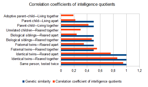 The blue bar is the the genetic similarity from 0 to 1 and the orange bar is the correlation coefficient of intelligence quotients from 0 to 1. The diagrams proves that IQ is dependant on both heritage and environment. Data source: Alan S. Kaufman: IQ Testing 101, Springer Publishing Company 2009, ISBN 978-0-8261-0629-2